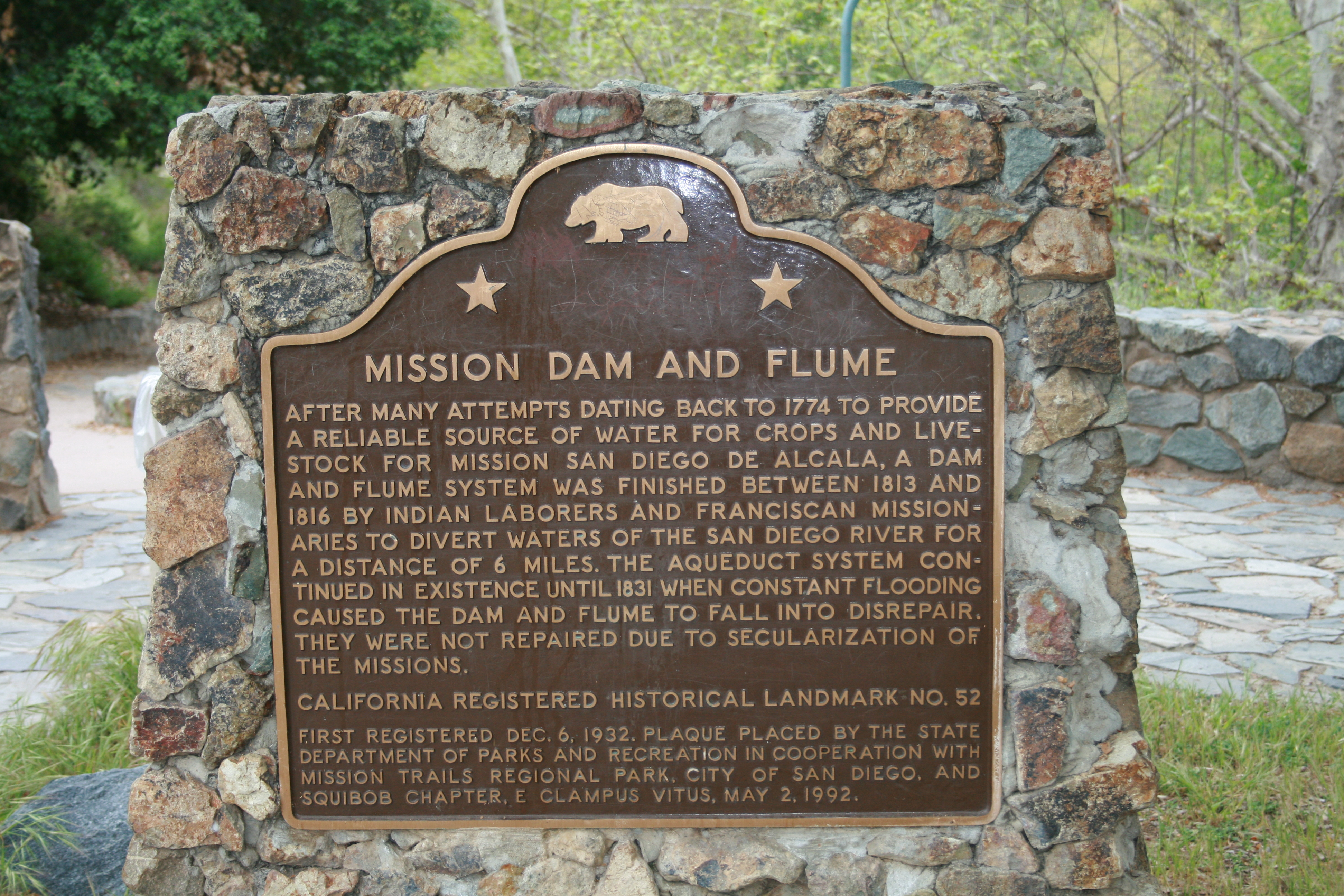 Missint Dam and Flume Sign, San Deigo County, California